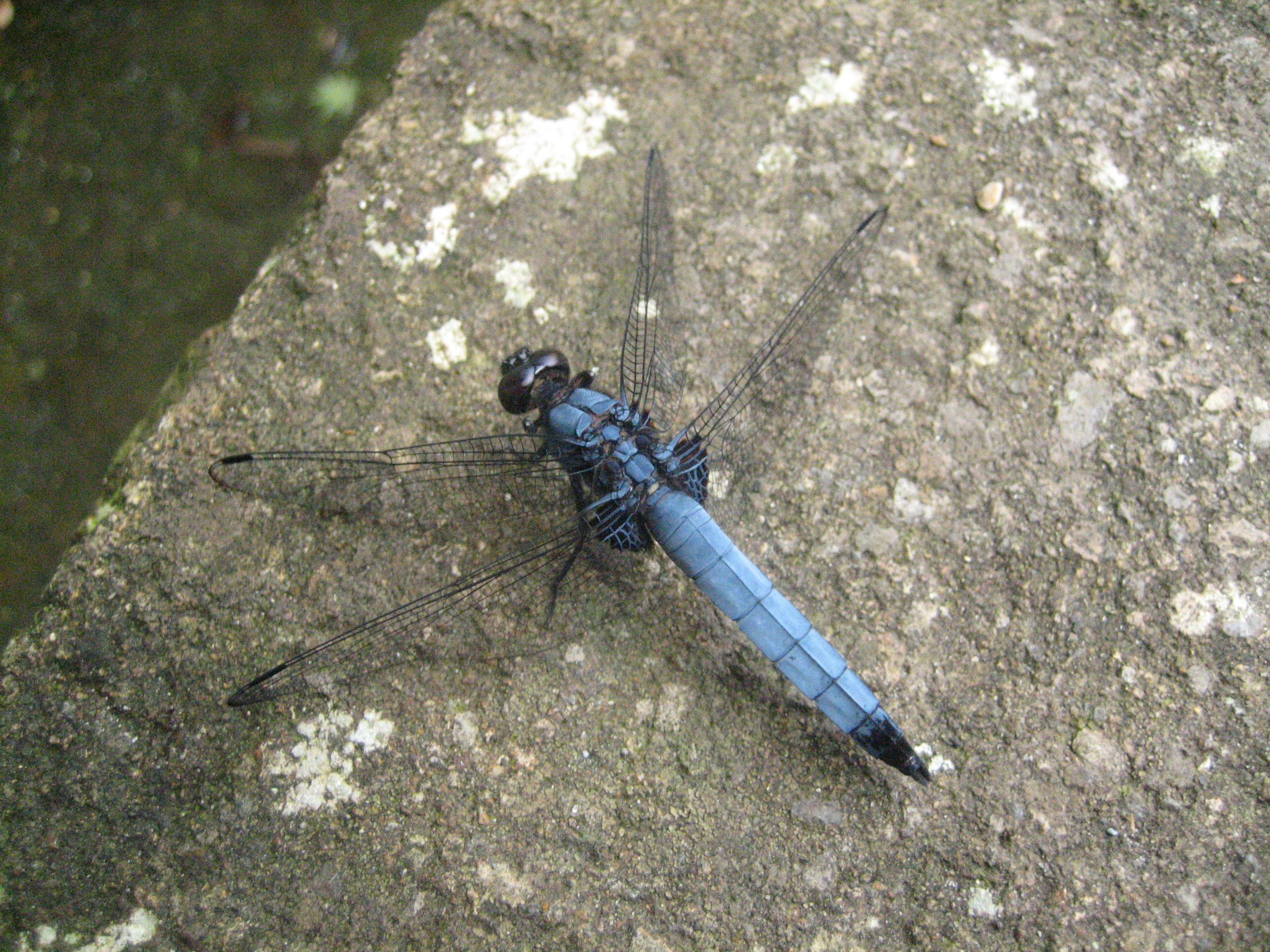 Blue dragonfly taken in temple grounds, Kamakura, Japan